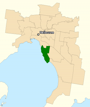 This image incorporates data that is: © Commonwealth of Australia (Australian Electoral Commission) 2009 Division of Goldstein 2010